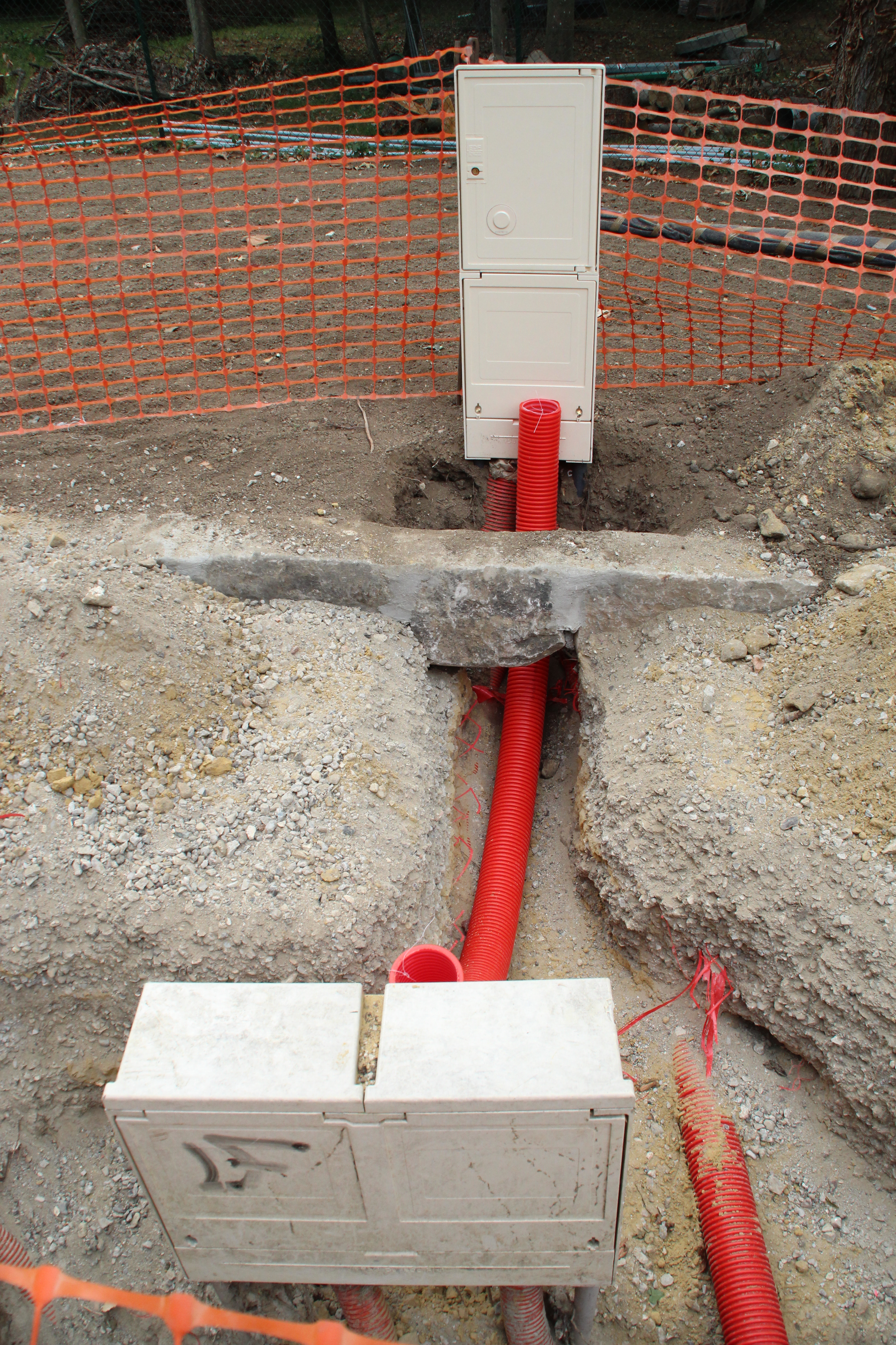 Construction of the Patience d'Eau residence in Gif-sur-Yvette, France.